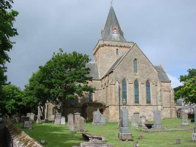 Dornoch Cathedral